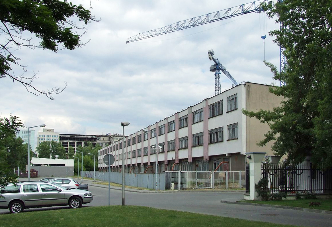 Remains of Zakłady Radiowe im. Marcina Kasprzaka w Warszawie